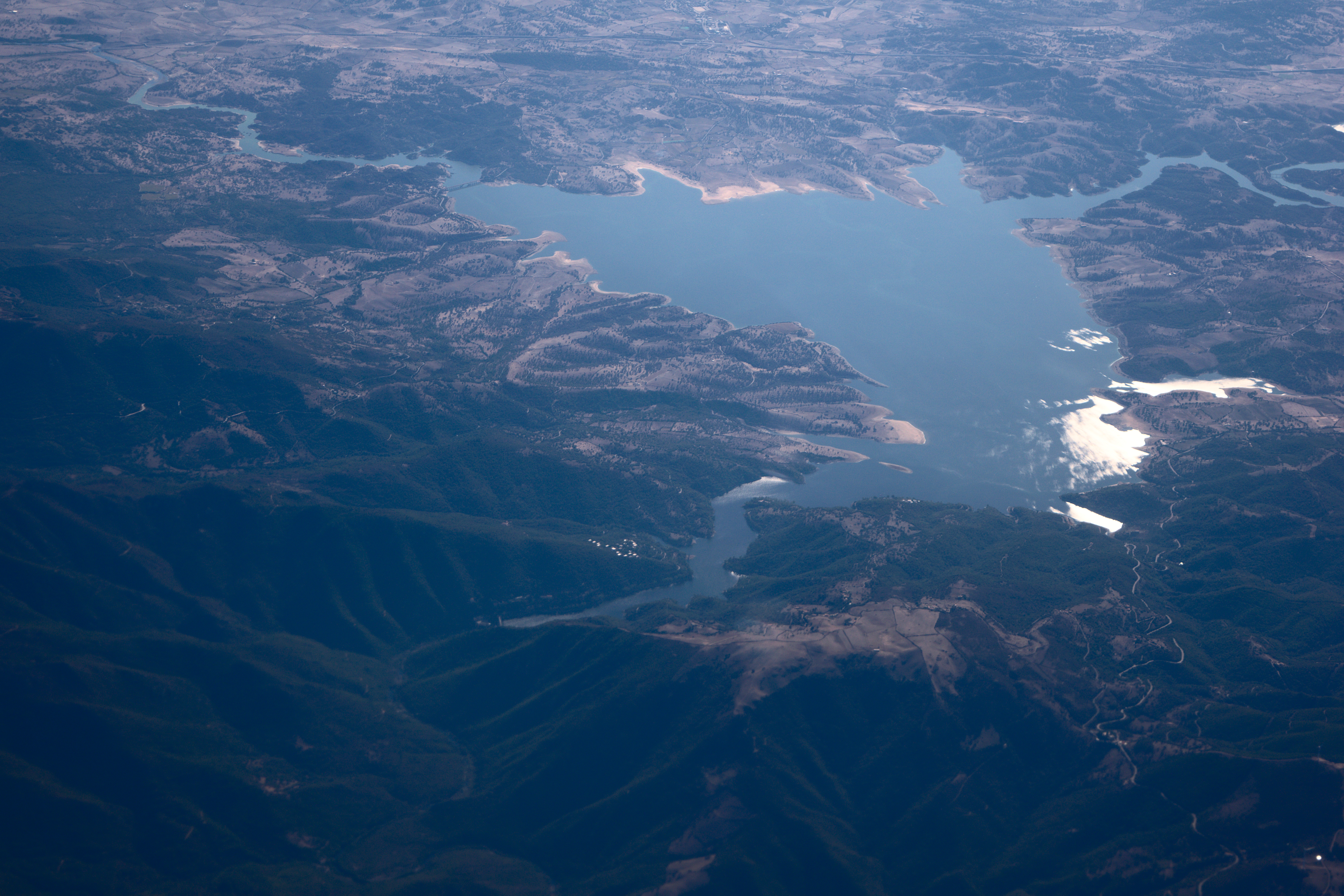 Aerial view of Lake Coghinas from the North-West.